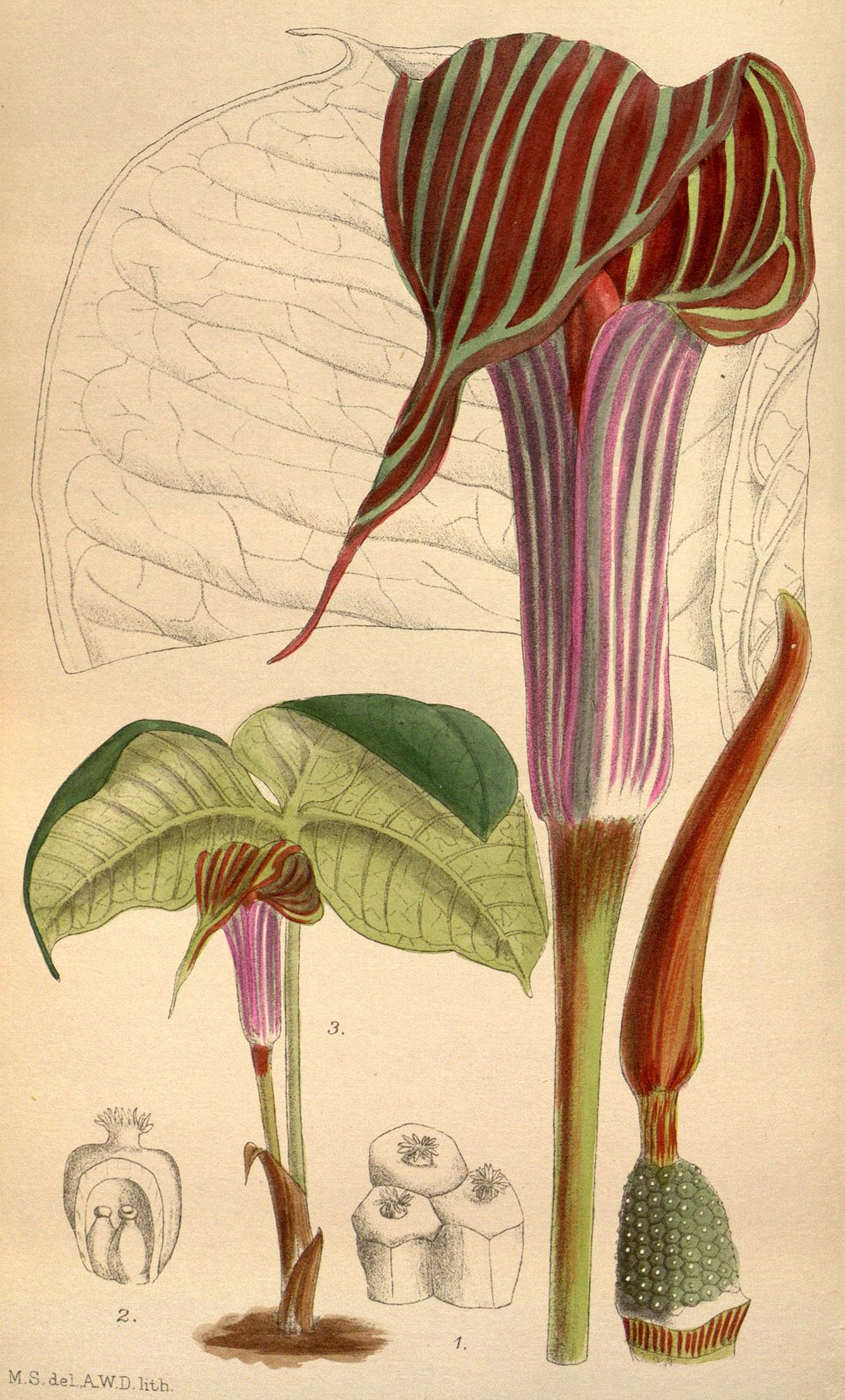 Tab 8861 Vol. 146 Curtis's Botanical Magazine. Arisaema fargesii illustrated by Matilda Smith.